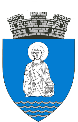 Coat of arms of Pantelimon, Ilfov County, Romania